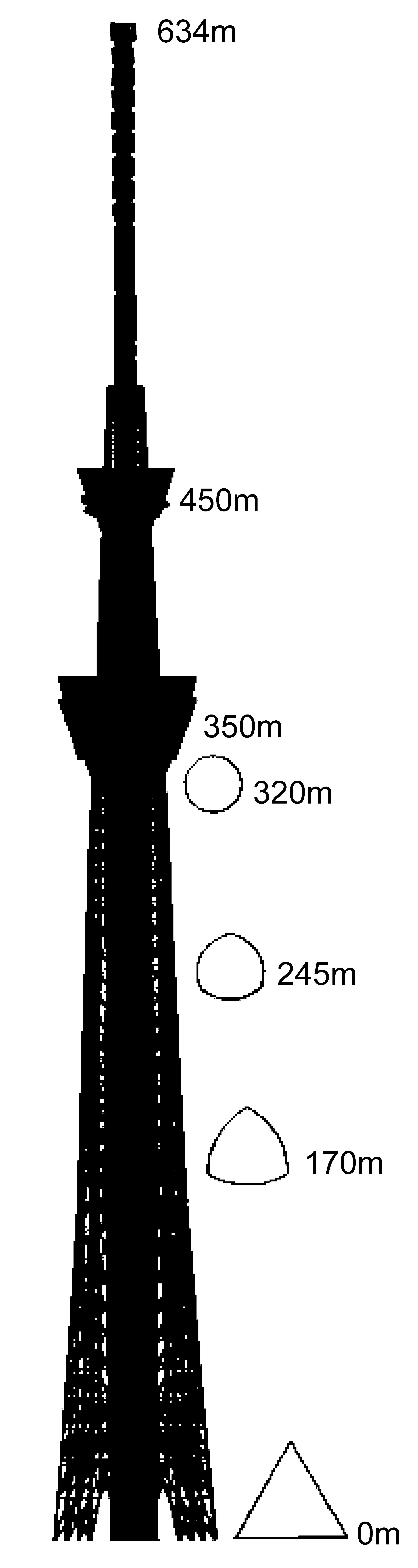 Tokyo Sky Tree - Silhouette & Cross section: Mostly self drawn image. Scanner read then manually contoured and strengthened , trimmed and with paste black to be silhouette. The source reference is Yomiuri Shimbun June 24, 2008 page 20 & 21. Cross section elevation number is approx. value which is figured out from the source. Construction started on July14, 2008 and scheduled to complete Dec. 2011. Note that Altered the height from 610 m to 634 m in aiming the highest self-supporting iron tower on 16 October 2009.